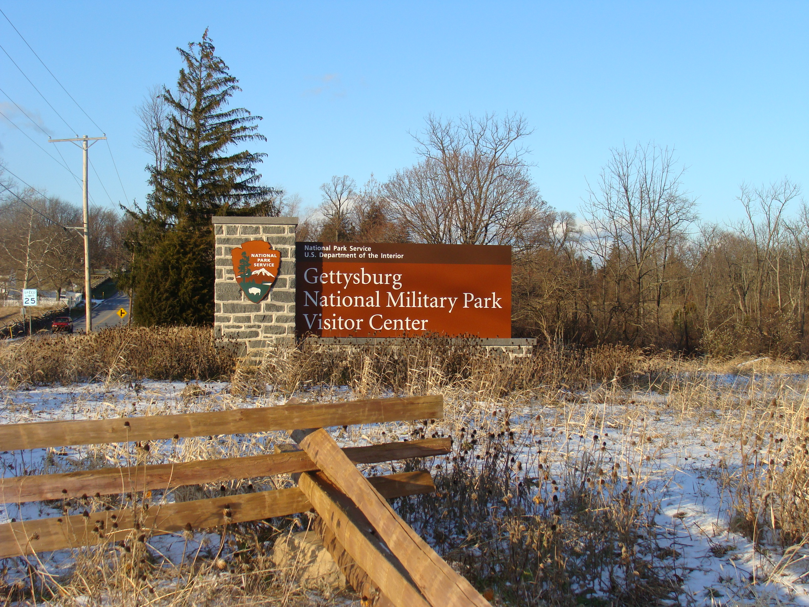 Entrance to the Gettysburg National Miliary Park.